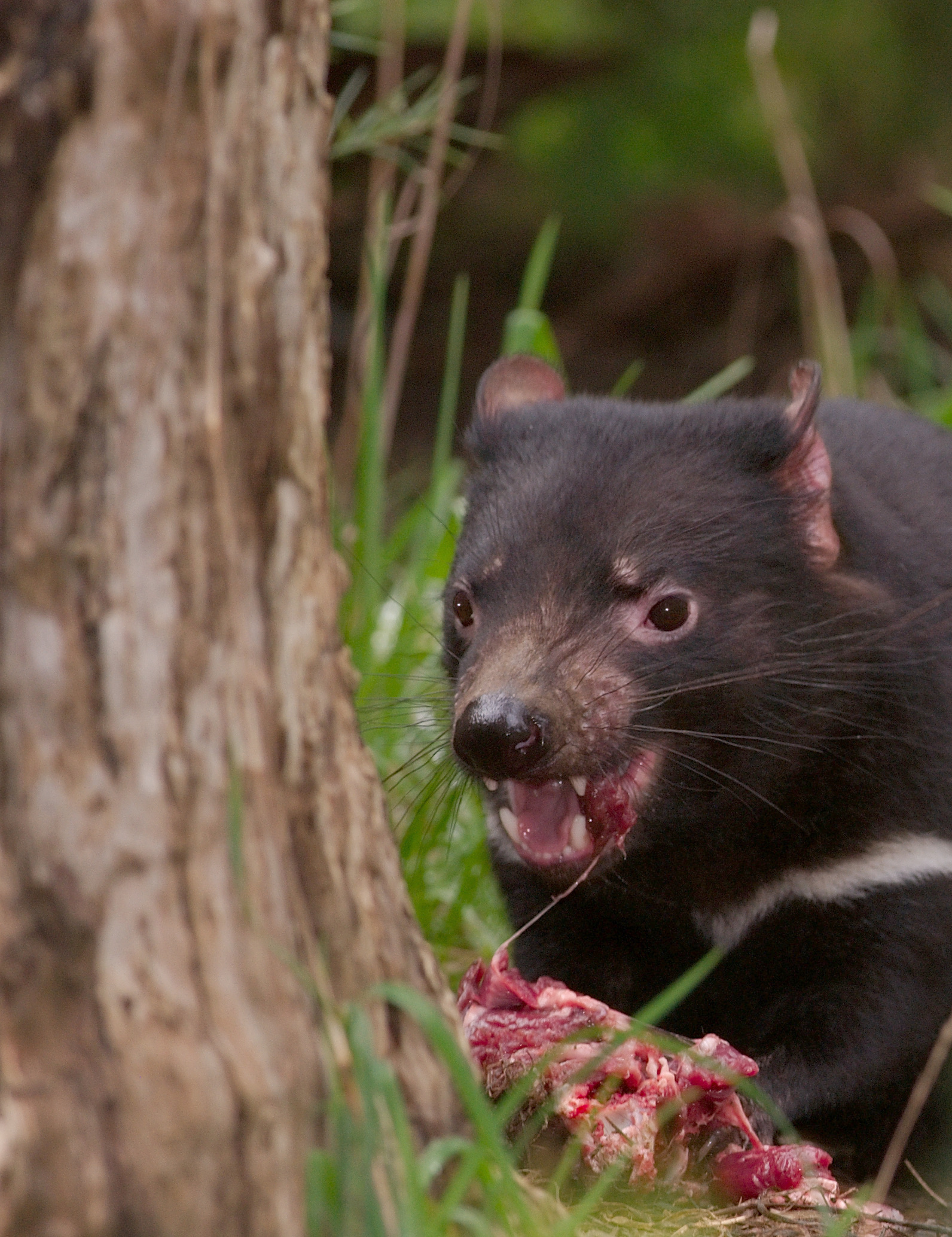 Tasmanian Devil (Sarcophilus harrisii) protecting his food (remains of a kangaroo), Cleland Wildlife Park, near Mount Lofty, Adelaide, South Australia